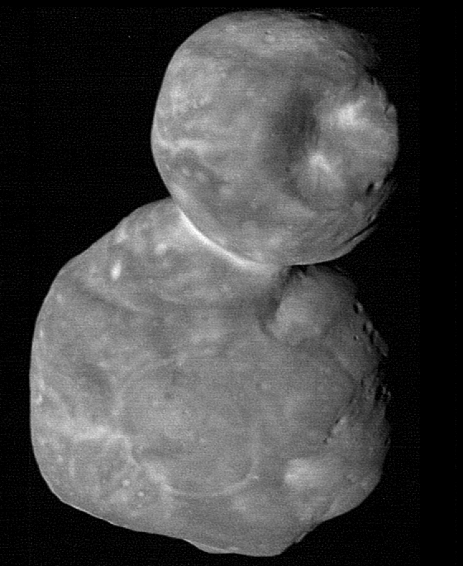 Ultima Thule - High-Resolution - as/of 22 February 2019 - New Horizons spacecraft, taken 1 January 2019[1] The most detailed images of Ultima Thule -- obtained just minutes before the spacecraft's closest approach at 12:33 a.m. EST on Jan. 1 -- have a resolution of about 110 feet (33 meters) per pixel. Their combination of higher spatial resolution and a favorable viewing geometry offer an unprecedented opportunity to investigate the surface of Ultima Thule, believed to be the most primitive object ever encountered by a spacecraft. This processed, composite picture combines nine individual images taken with the Long Range Reconnaissance Imager (LORRI), each with an exposure time of 0.025 seconds, just 6 ½ minutes before the spacecraft’s closest approach to Ultima Thule (officially named 2014 MU69). The image was taken at 5:26 UT (12:26 a.m. EST) on Jan. 1, 2019, when the spacecraft was 4,109 miles (6,628 kilometers) from Ultima Thule and 4.1 billion miles (6.6 billion kilometers) from Earth. The angle between the spacecraft, Ultima Thule and the Sun – known as the “phase angle” – was 33 degrees. References ↑ Chang, Kenneth (22 February 2019). "New Ultima Thule Photos Were Made in a Flash - The images were recorded while the New Horizons spacecraft was moving at more than 32,000 miles per hour.". The New York Times. Retrieved on 23 February 2019.